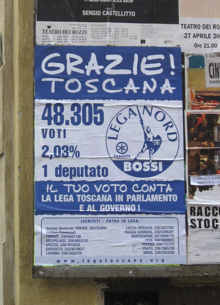 Election poster by the Lega Nord thanking voters after the 2008 snap general election. Taken in Siena.